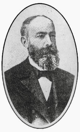 Mizancı Murat (1854-1917) Ottoman statesman, historian and writer. He is best known for his work during the Second Constitutional Era. (Scanned image)